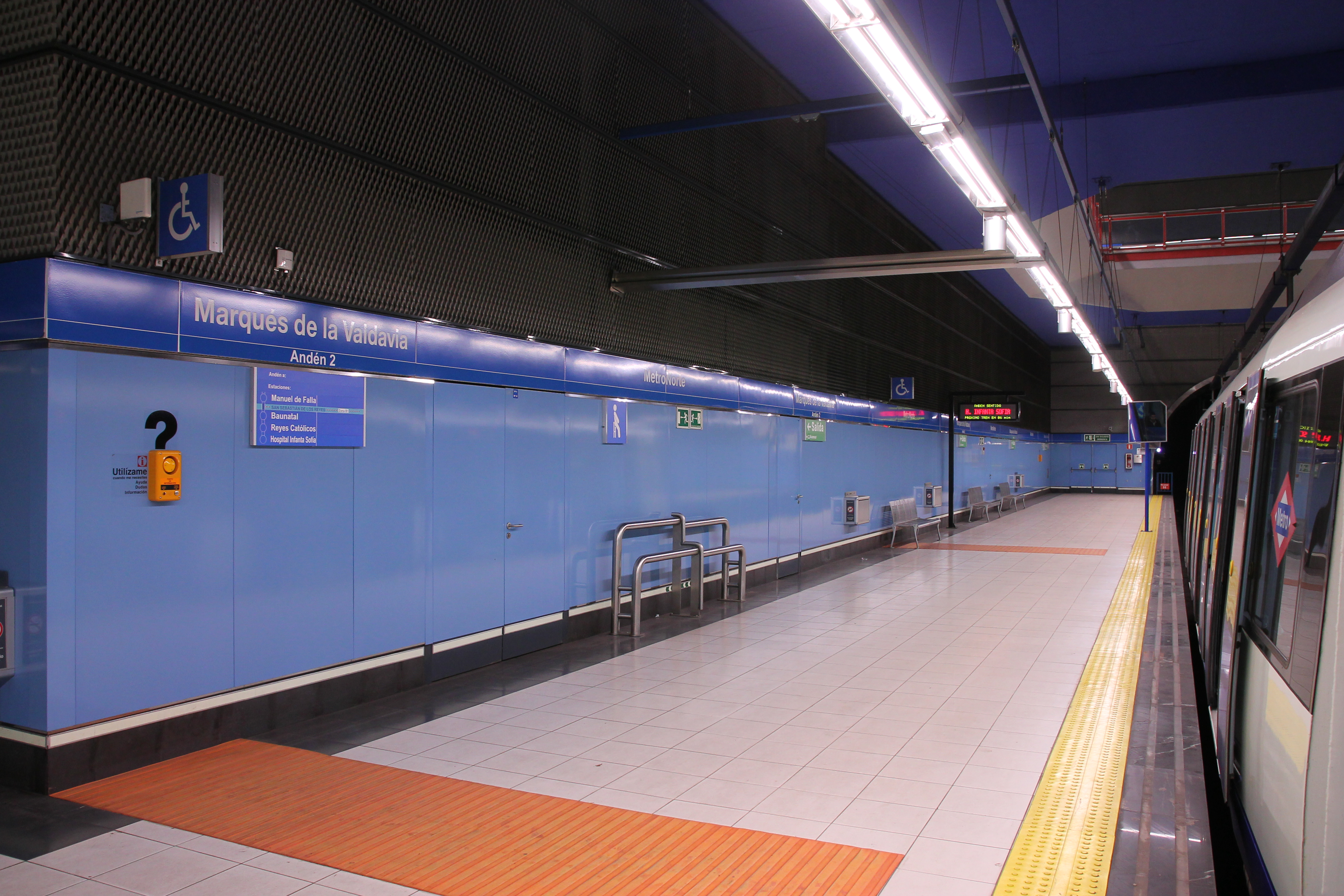 Estación de Marqués de la Valdavia